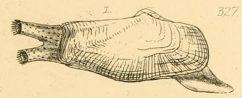 Lyonsia norwegica (Gmelin, 1791), Lyonsiidae, Bivalvia, Mollusca